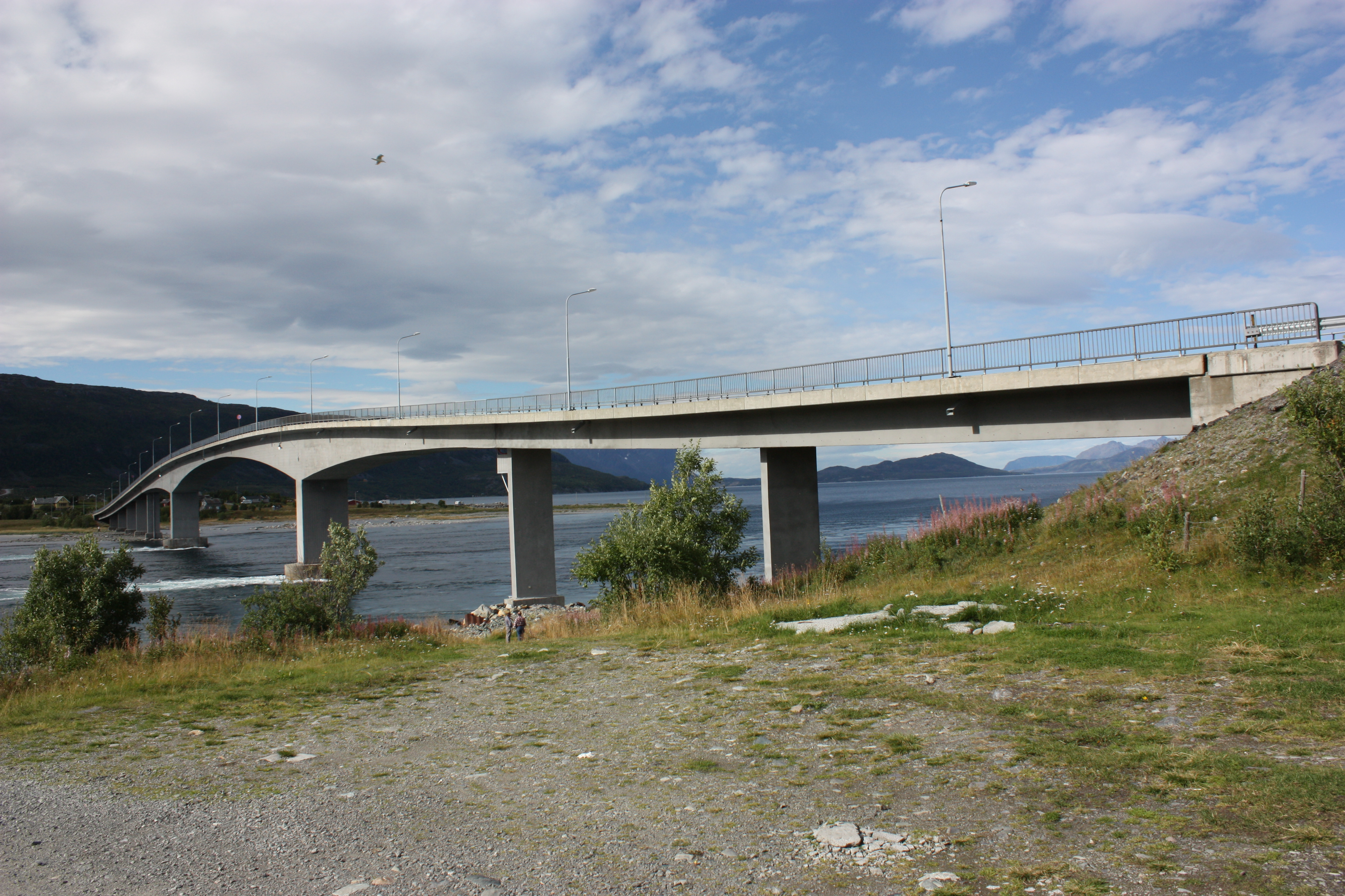 The Sørstraumen Bridge as seen from the southeast.